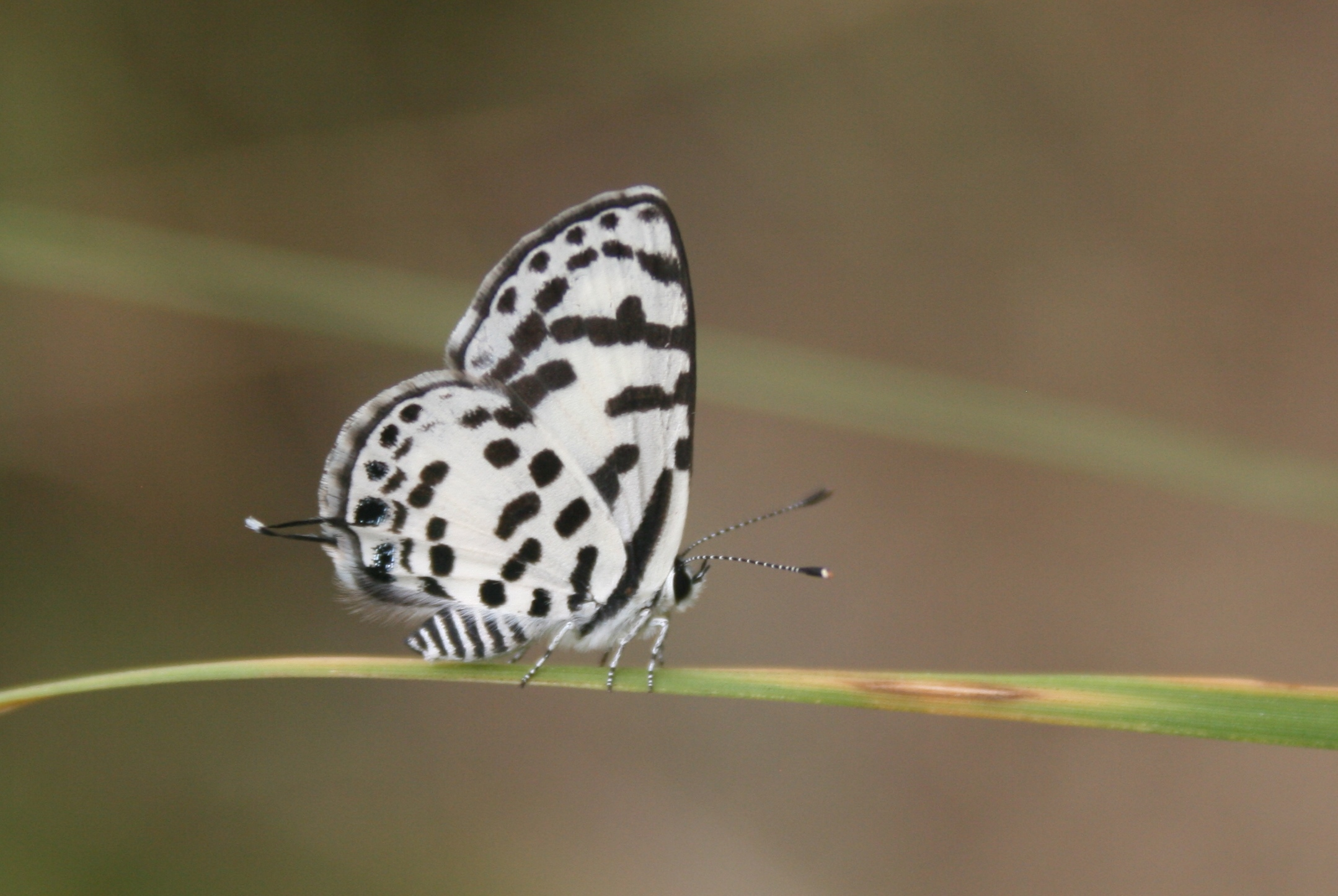 Tuxentius calice subsp calice